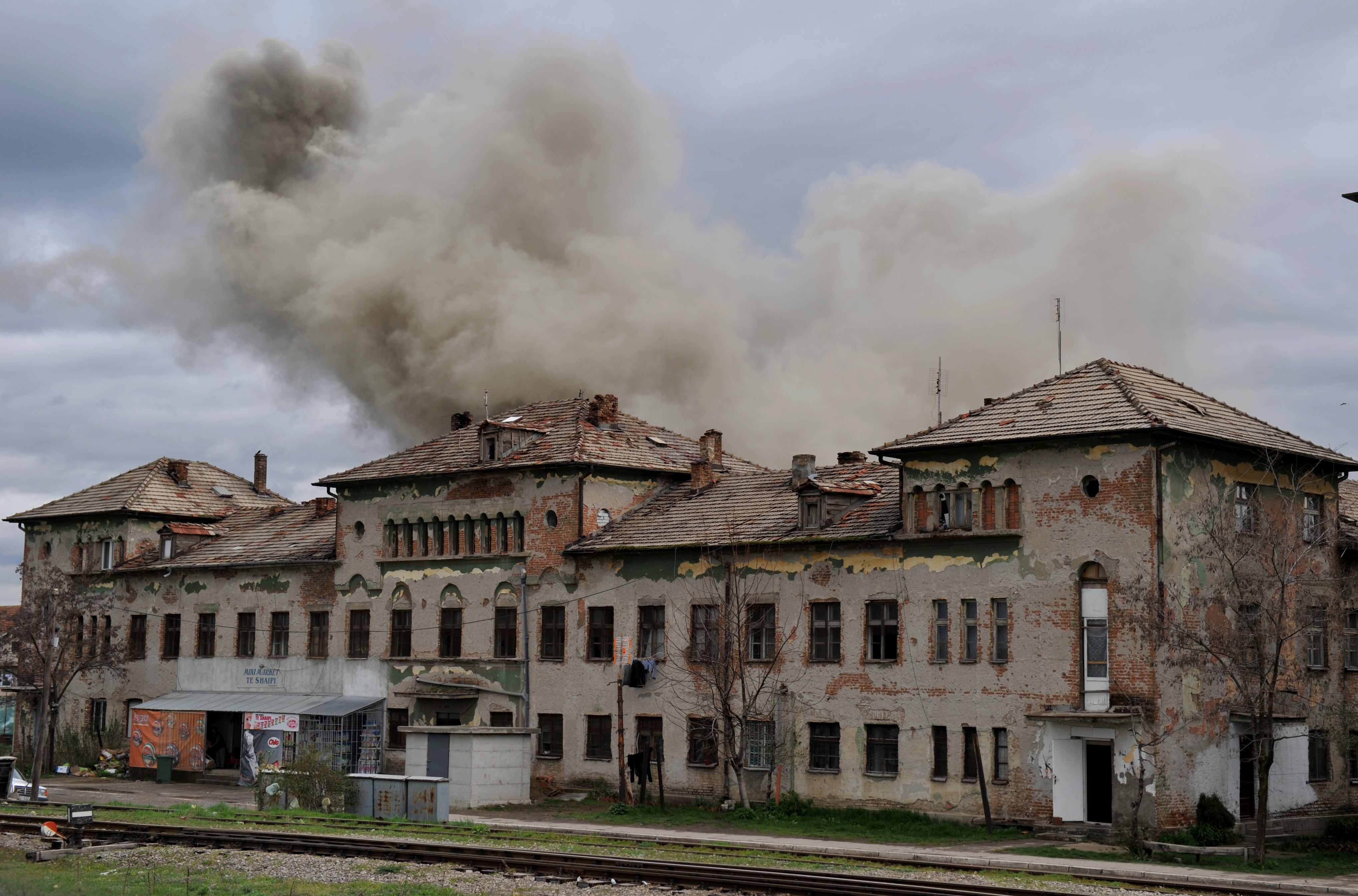 Fushë Kosovë photo nga treni